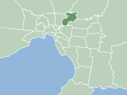 Map of Melbourne's Local Government Areas, highlighting City of Banyule